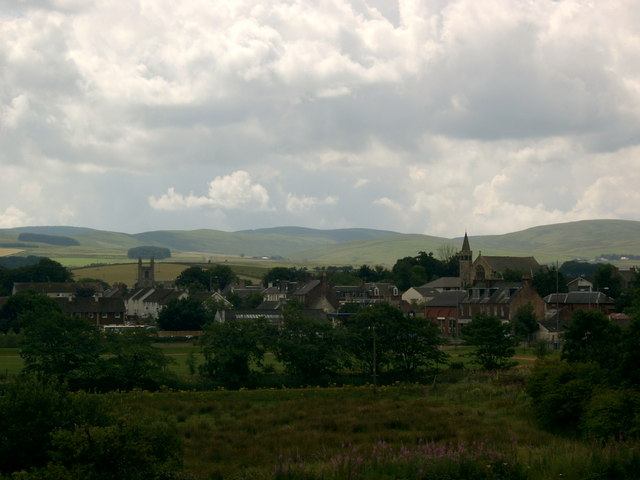 New Cumnock, Ayrshire. A lovely view of the town of New Cumnock, showing the two churches and the rolling Ayrshire countryside in the background.